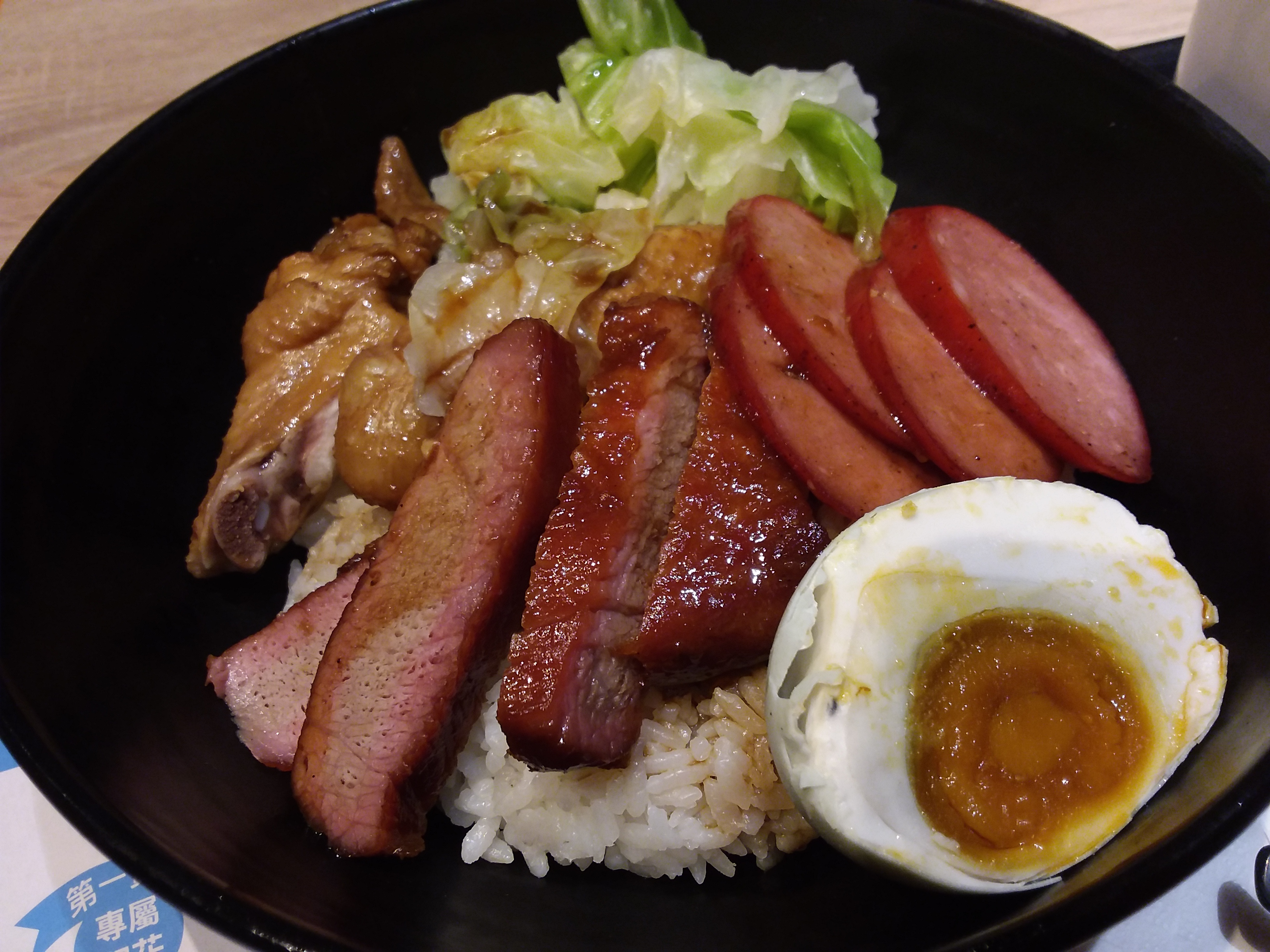 HK TKL 調景嶺 Tiu Keng Leng 都會駅 MetroTown mall shop 大快活快餐店 Fairwood restaurant Lunch food 叉燒 紅腸 咸蛋 四寶飯 bbq pork meat rice in June 2019